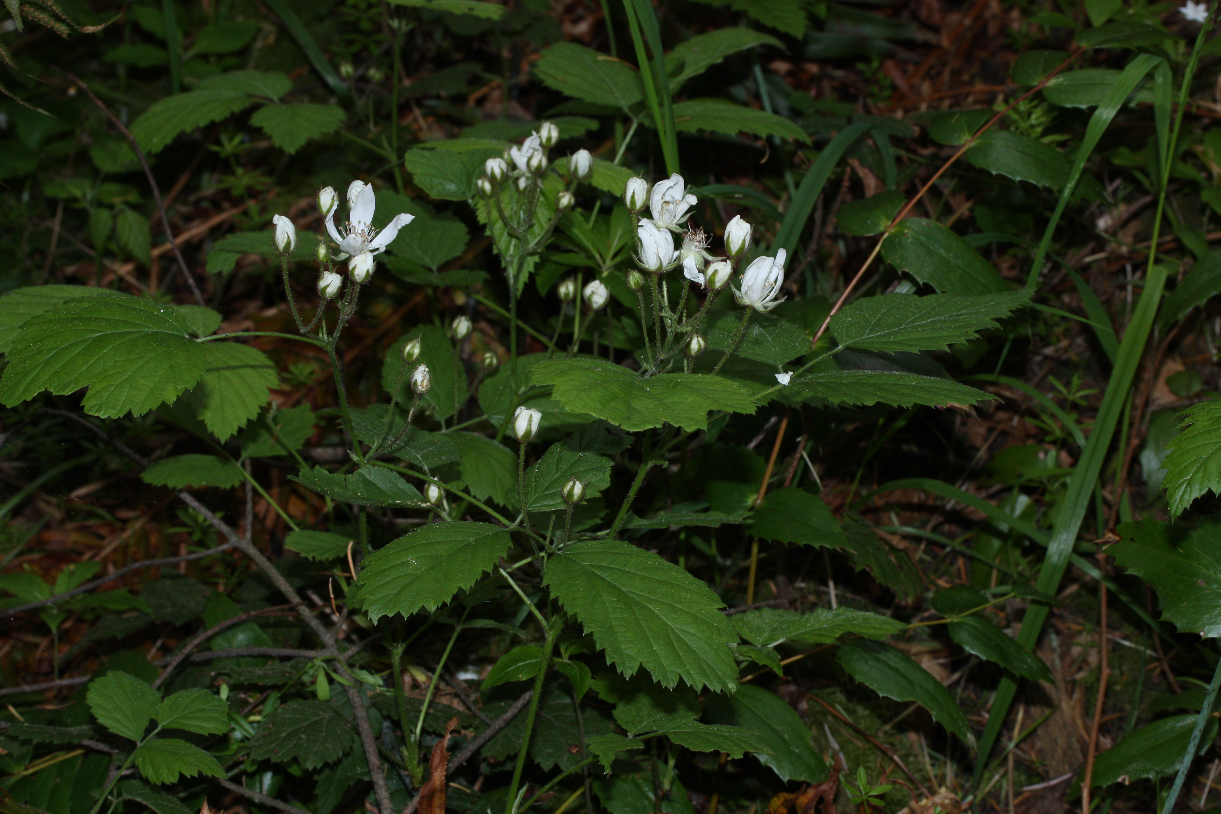 California Blackberry, Dewberry